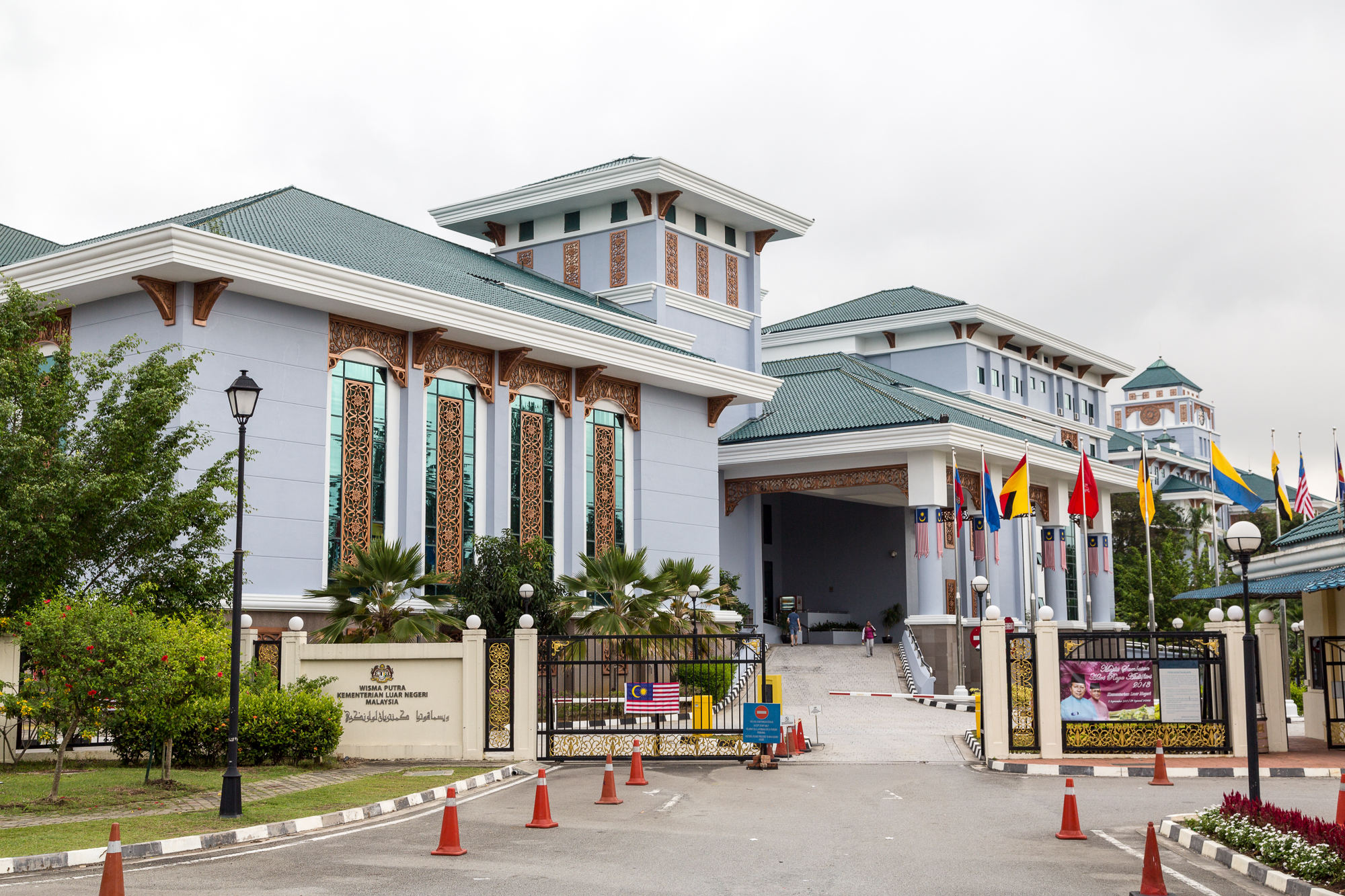 Putrajaya, Malaysia: Kementerian Luar Negeri (Ministry of Foreign Affairs; KLN)